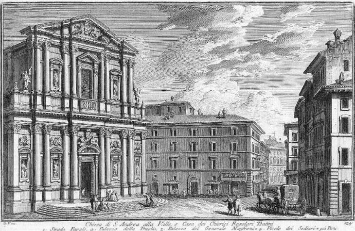 1) Papal Street; 2) Palazzo della Truglia; 3) Palazzo del Generale Manfroni; 4) Vicolo de' Sediari (chair-makers), a very narrow street leading to Archiginnasio della Sapienza.